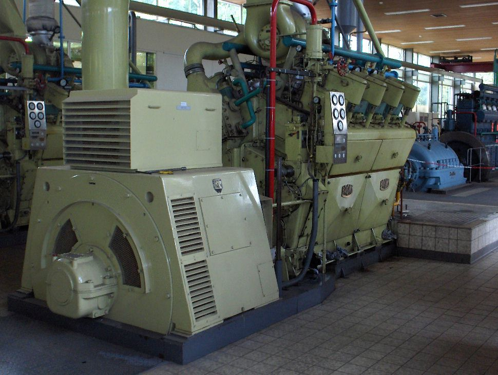 Stationaire Brons 8 cil. VG motor met generator.